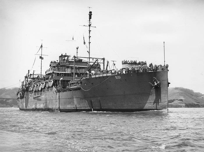 The U.S. Navy miscellaneous auxiliary USS Argonne (AG-31) underway in San Francisco Bay, California (USA), between late 1945 and mid-1946. The ship is probably concluding a voyage bringing servicemen home from the Western Pacific as part of "Operation Magic Carpet". The gun tub on the forecastle was added in 1942 for 20mm anti-aircraft guns.